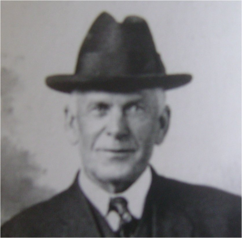 John W Steward portrait